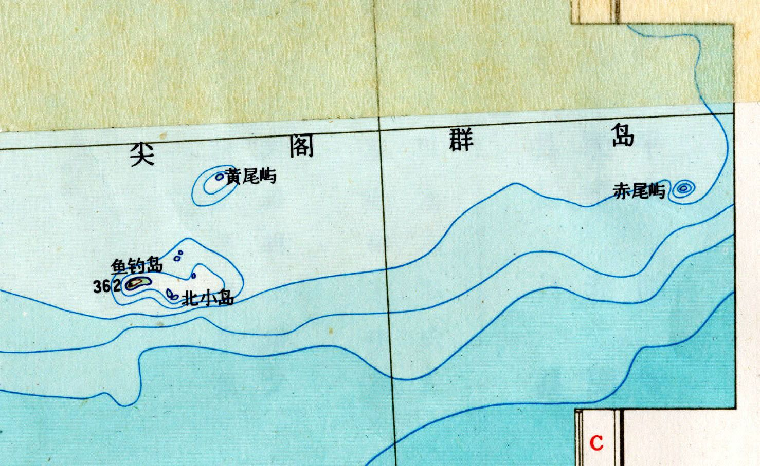 尖 阁 群 岛 尖 閣 群 島 Section of 1969 map published by the People's Republic of China, showing and identifying the "Senkaku Islands" as Japanese territory. NOTE: Top line of map: Chinese Simplified hanzi characters = Jiāngé Qúndǎo Similar to the Japanese name in kanji characters = Senkaku Guntō Establishing context and significance of image